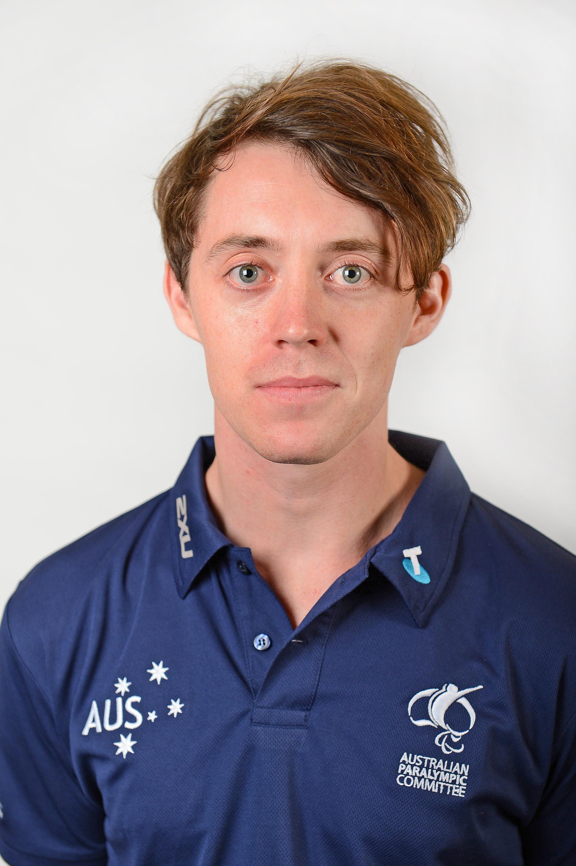 Portrait of Australian Skier Toby Kane, 2014 Australian Paralympic Team Athlete